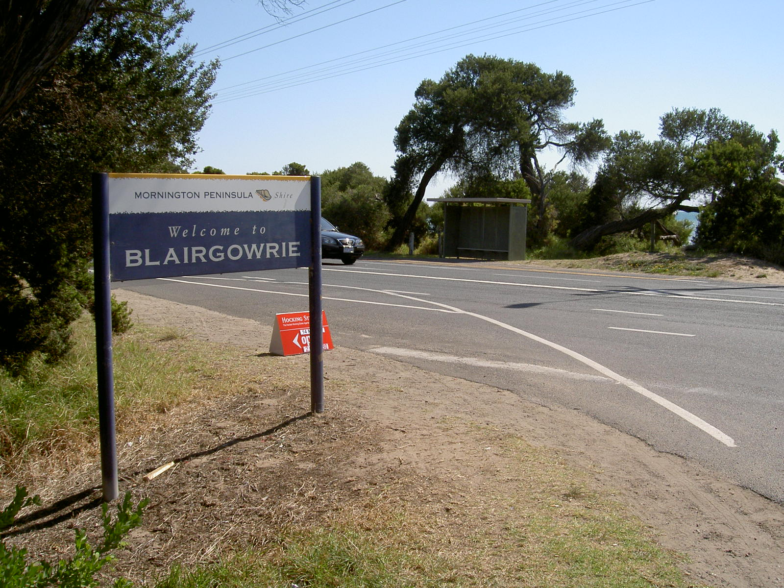 Sign identifying entrance to Blairgowrie.